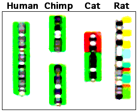 Changes in chromosomes during evolution. During human evolution, two ancestral ape chromosomes fused to produce human chromosome 2 (shown in the diagram, green outline). Humans are more distantly related to other mammals than to chimps. The greater divergence of chromosomal contiguity for cats and rats is shown. Source: created with ClarisDraw and Photoshop.